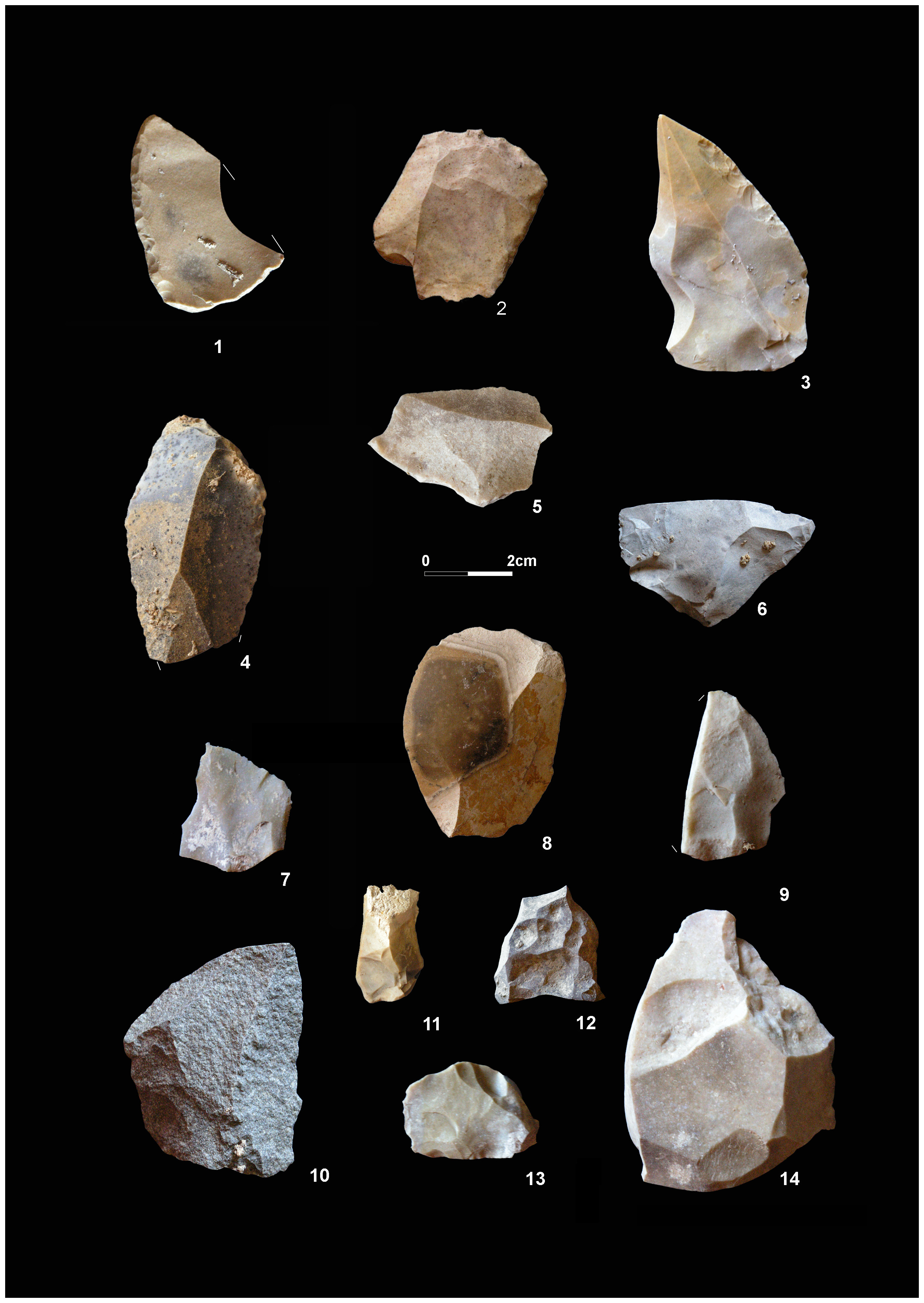 Lithic industries from Bajondillo cave, Torremolinos, Spain. Levallois, made by Neanderthals, 150.000 years before present.